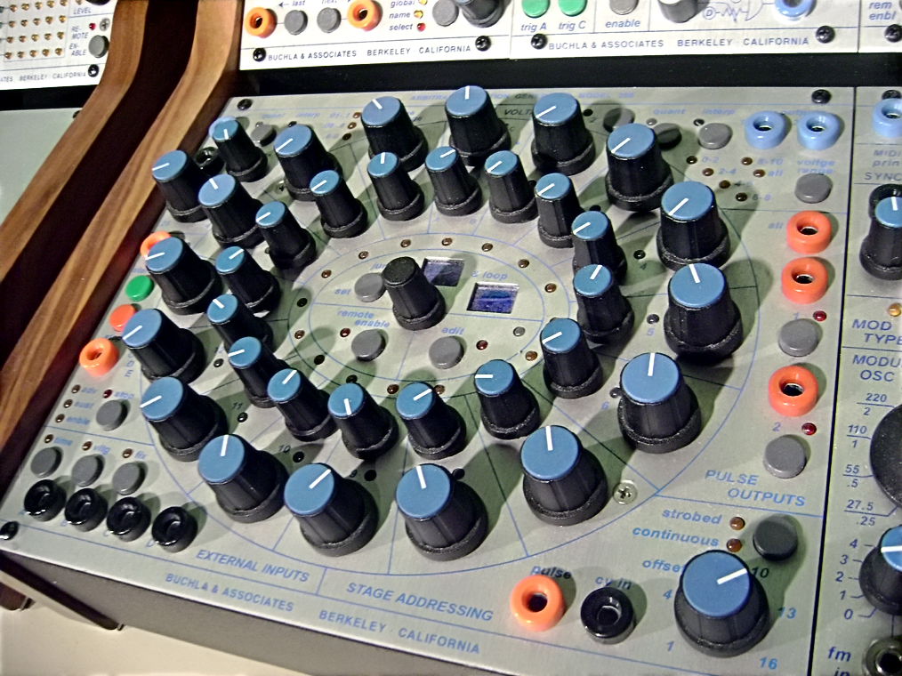 Buchla 250e Arbitrary Function Generator module Analog porn Visited the Cantos Foundation museum this week & took a lot of photos and videos. Trackback: MatrixSynth More photos & videos to come.